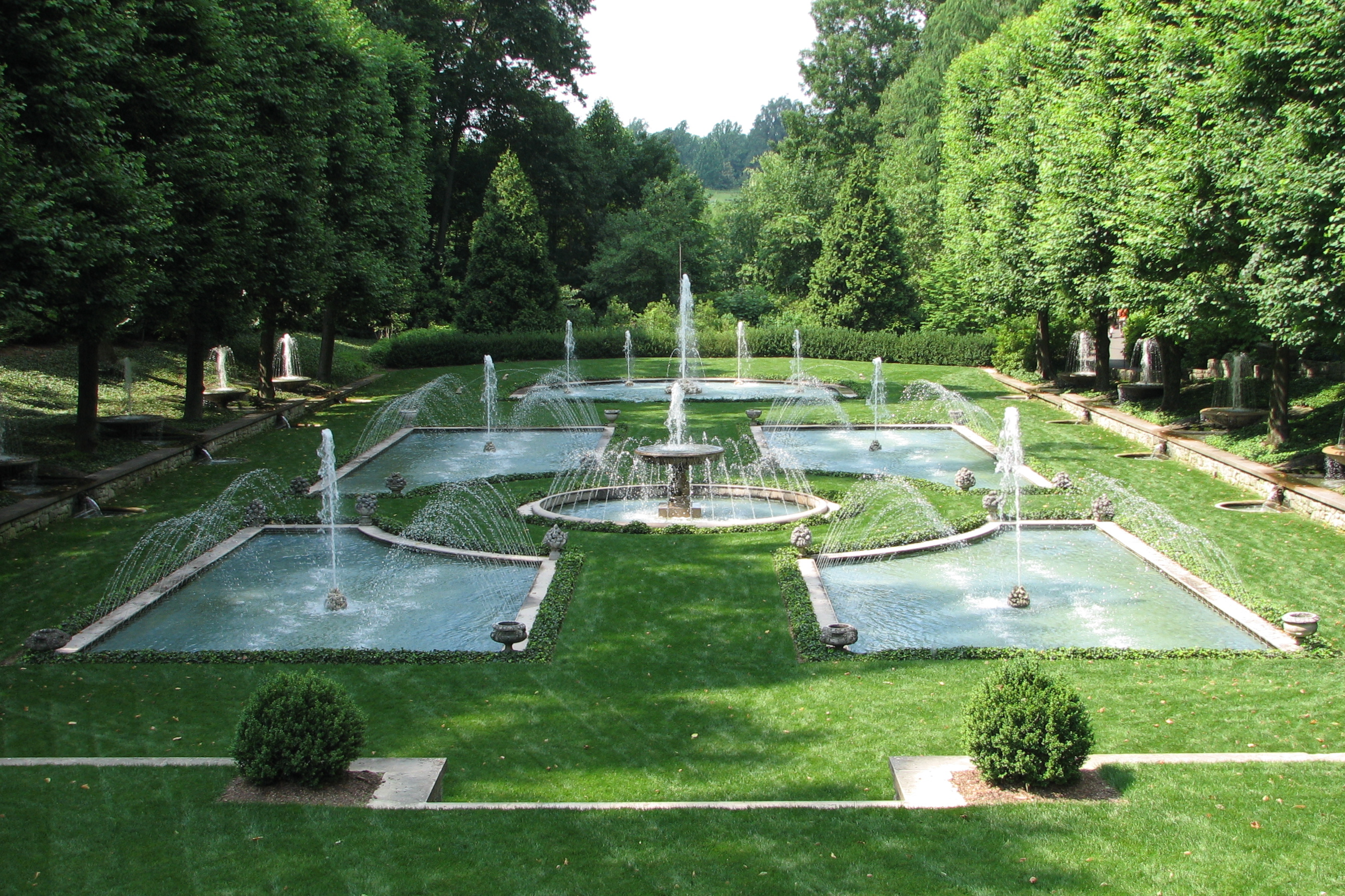 Fountains in the Italian Water Garden at Longwood Gardens in Pennsylvania.